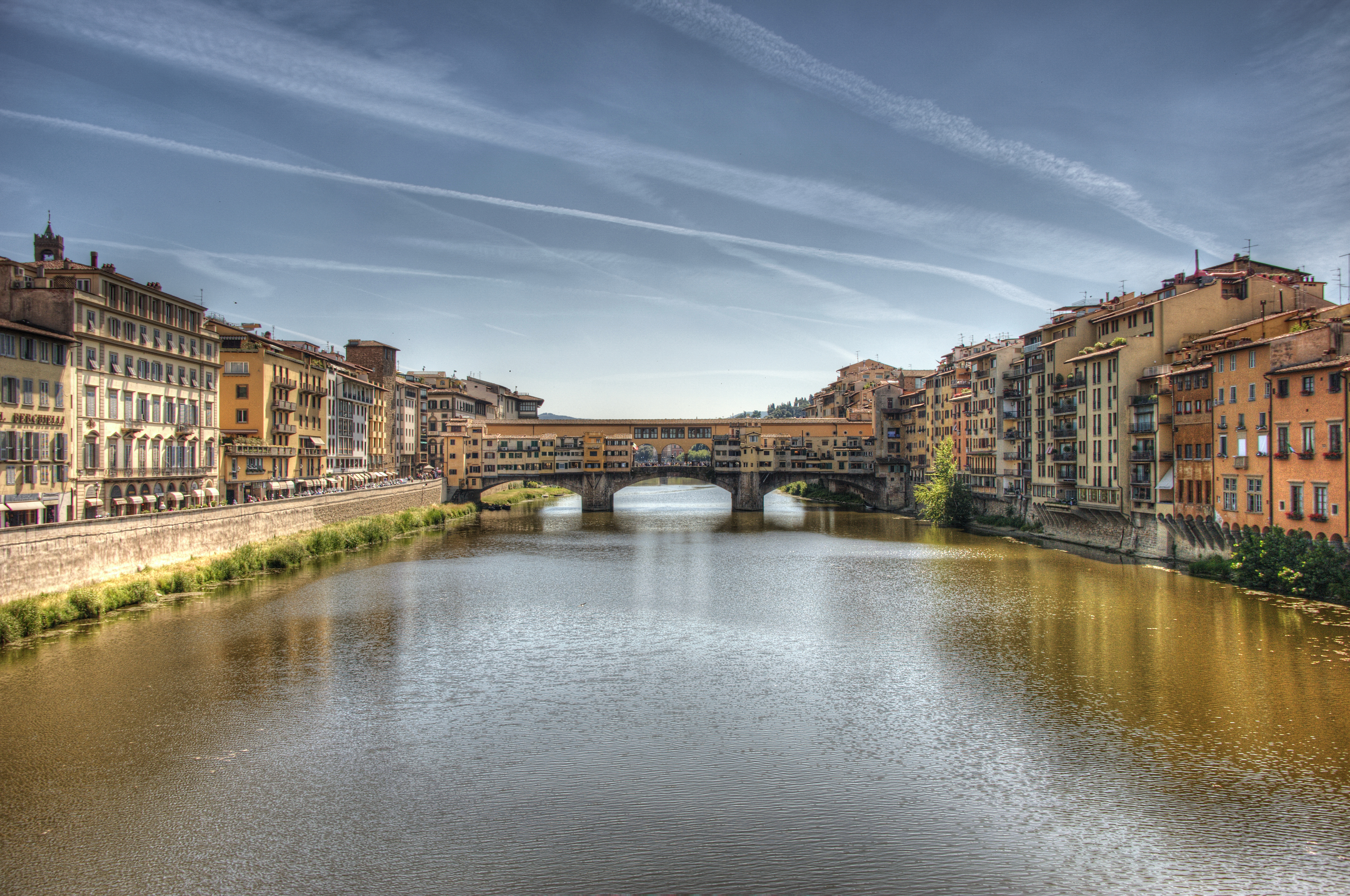 Arno River and Ponte Vecchio, Florence